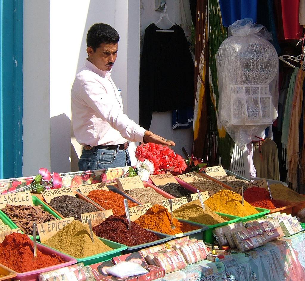 Has been taken on Djerba island - Tunis. What is the residual spices ?